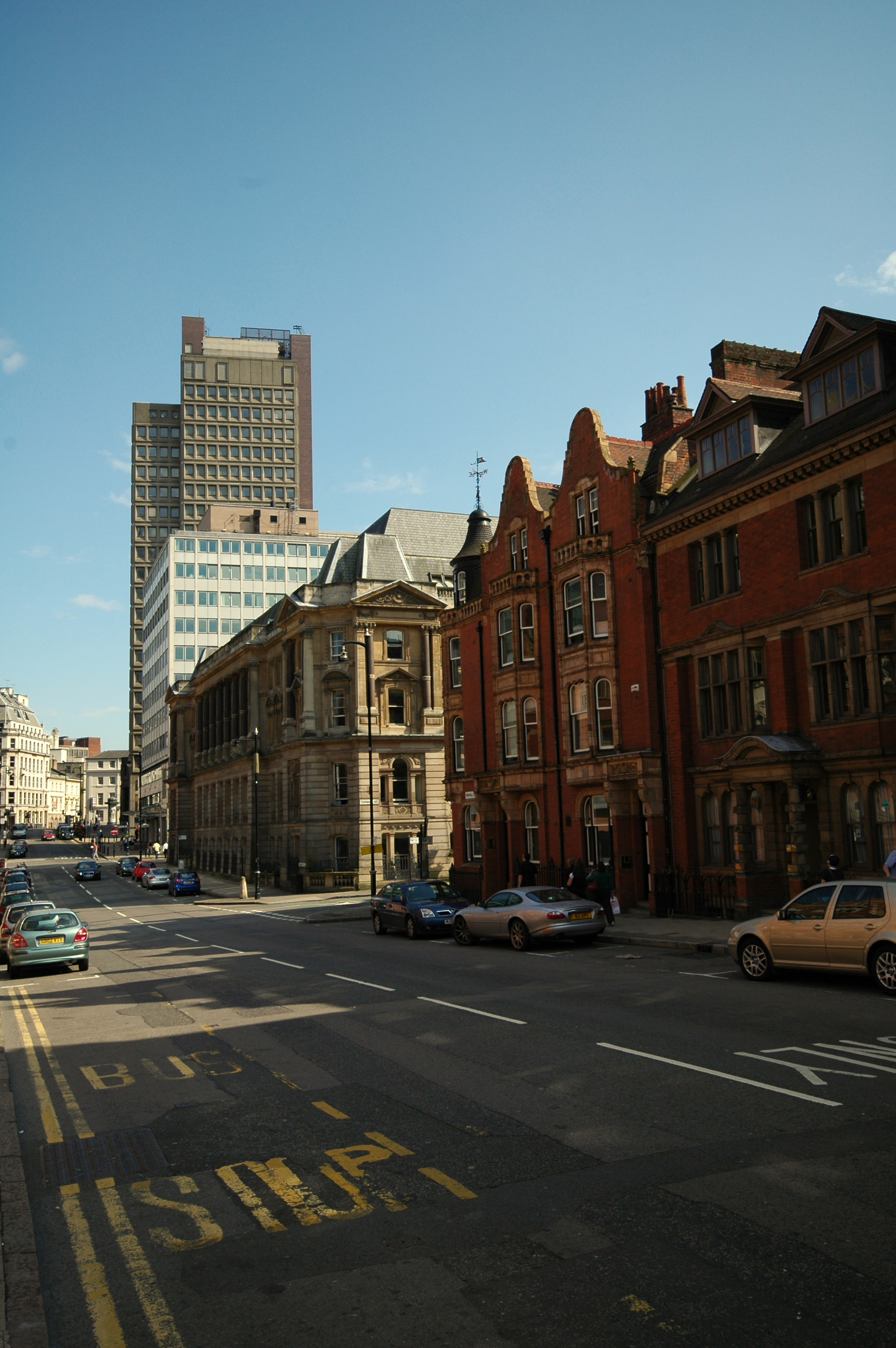 A view of Newhall Street in Birmingham facing towards Colmore Row.